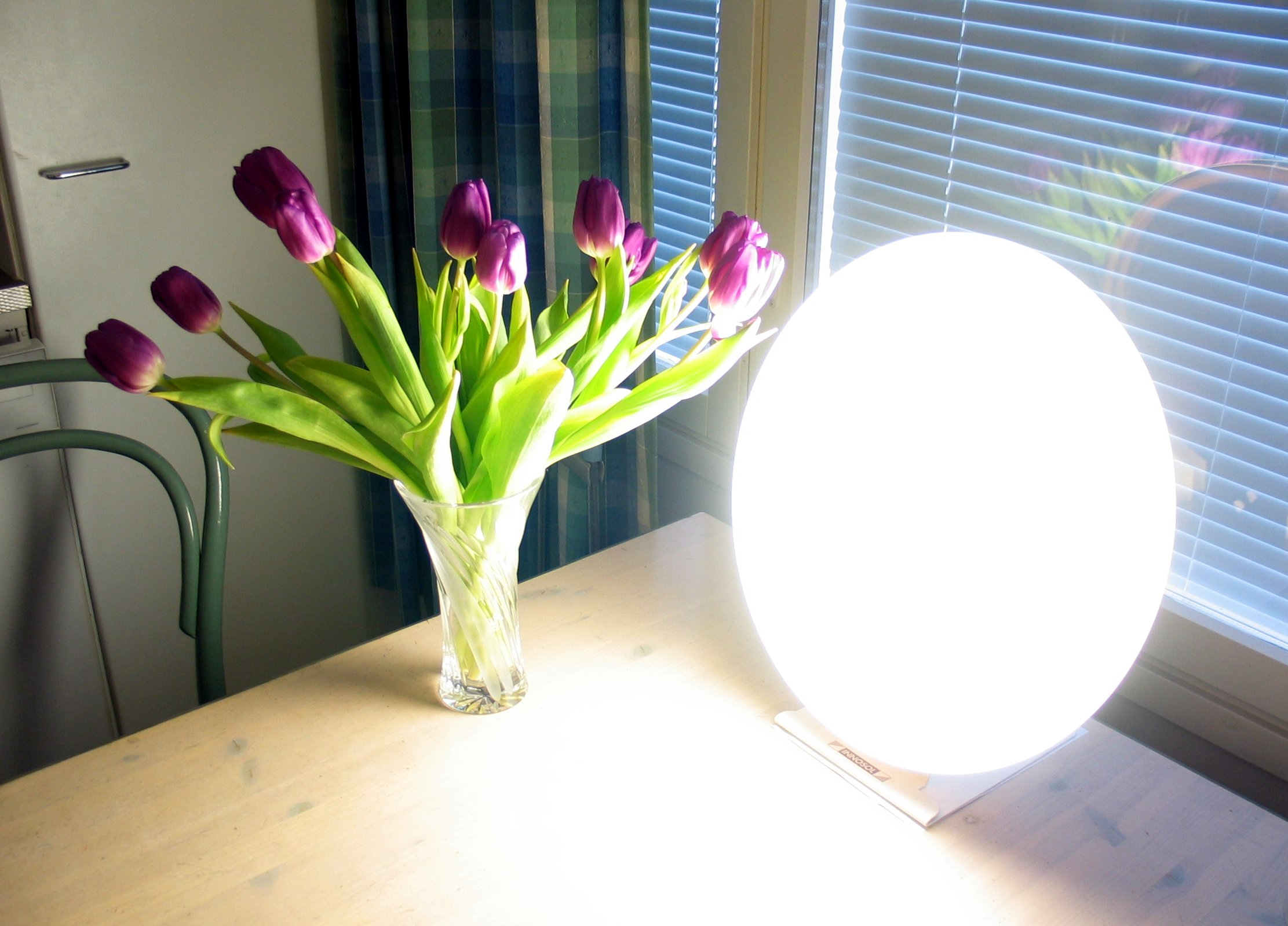 A 30 kHz bright light therapy lamp (Innosol Rondo) used to treat seasonal affective disorder. Provides 10,000 lux at a distance of 25 cm.